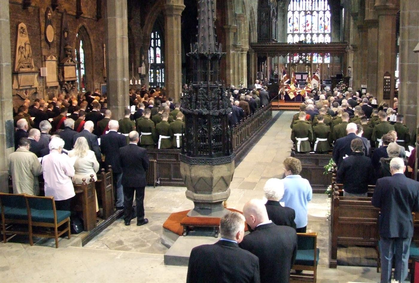 Laying up of 1981 stand of Regimental Colours of the 1st Battalion Duke of Wellingtons Regiment in the Parish Church, Halifax, West Yorkshire, UK